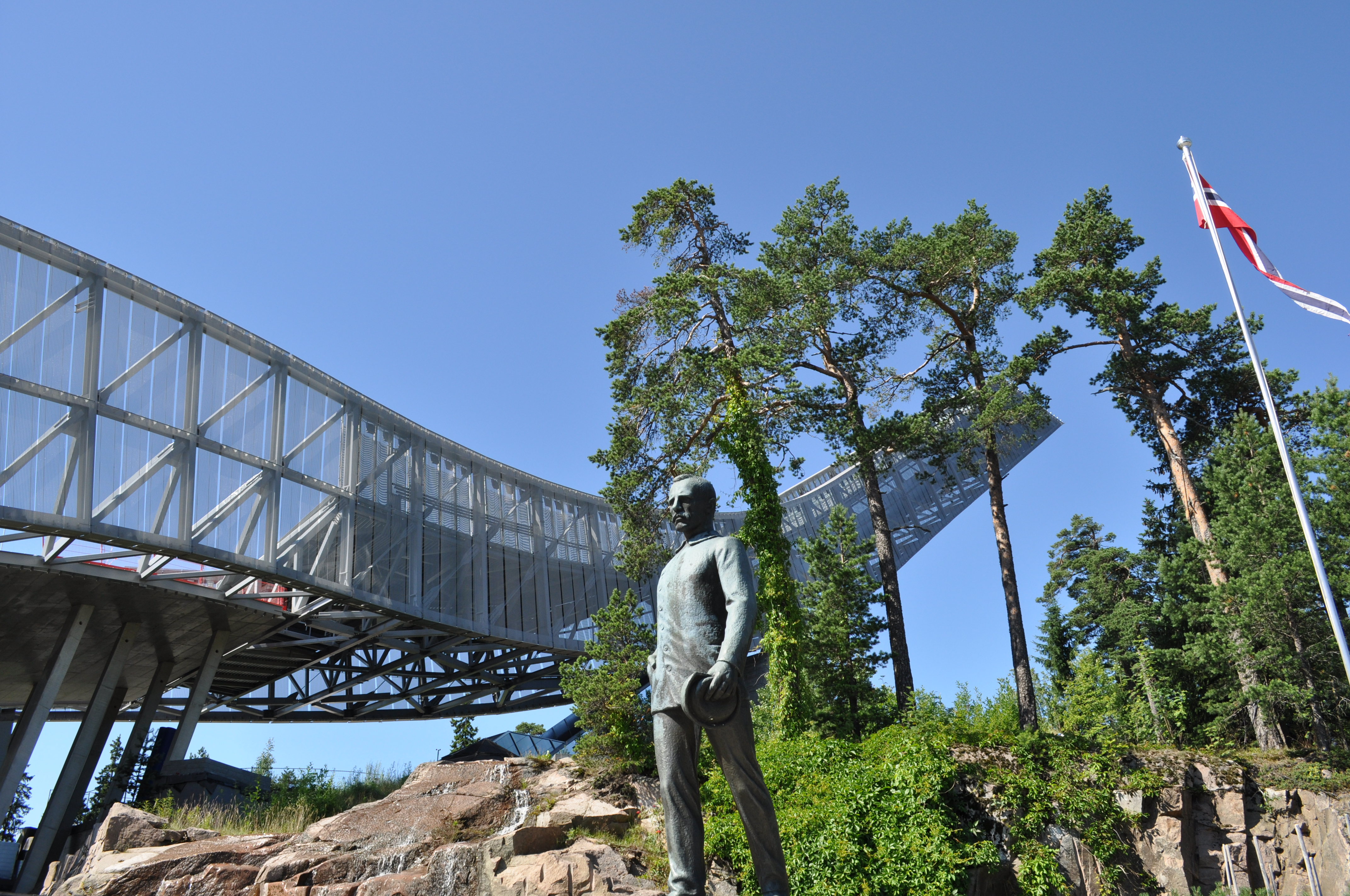 Holmenkollen